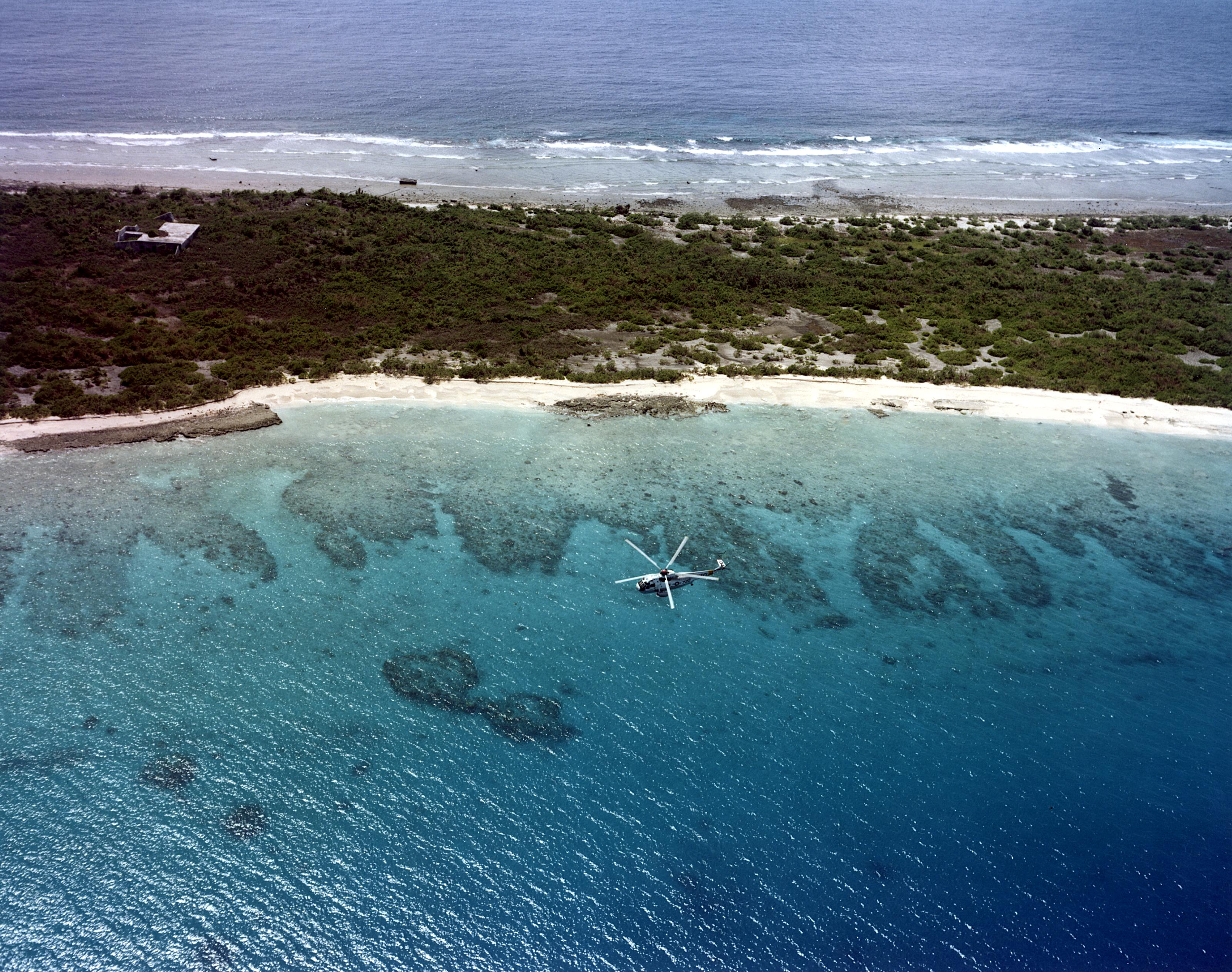 A U.S. Navy Sikorsky SH-3G Sea King (BuNo 151545) from Helicopter Combat Support Squadron 1 (HC-1) "Pacific Fleet Angels" in flight during an aerial radiation survey on Bikini Atoll, 15 November 1978.